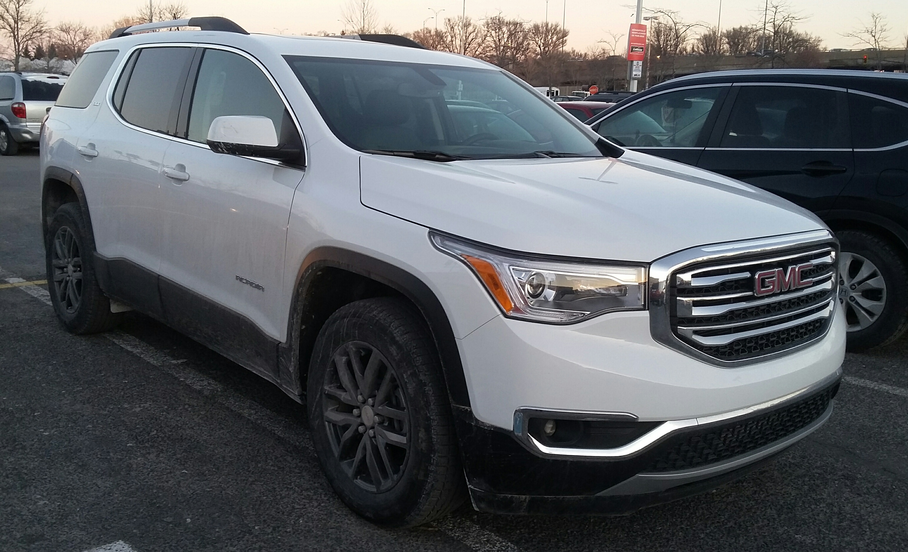 2017 GMC Acadia photographed in Montréal, Québec, Canada.